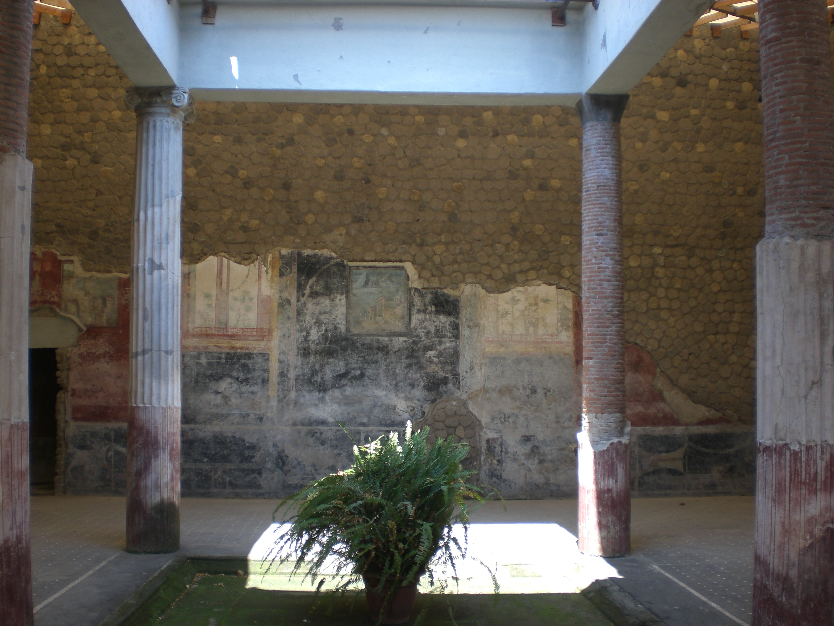 Impluvium in Villa San Marco of Stabiae